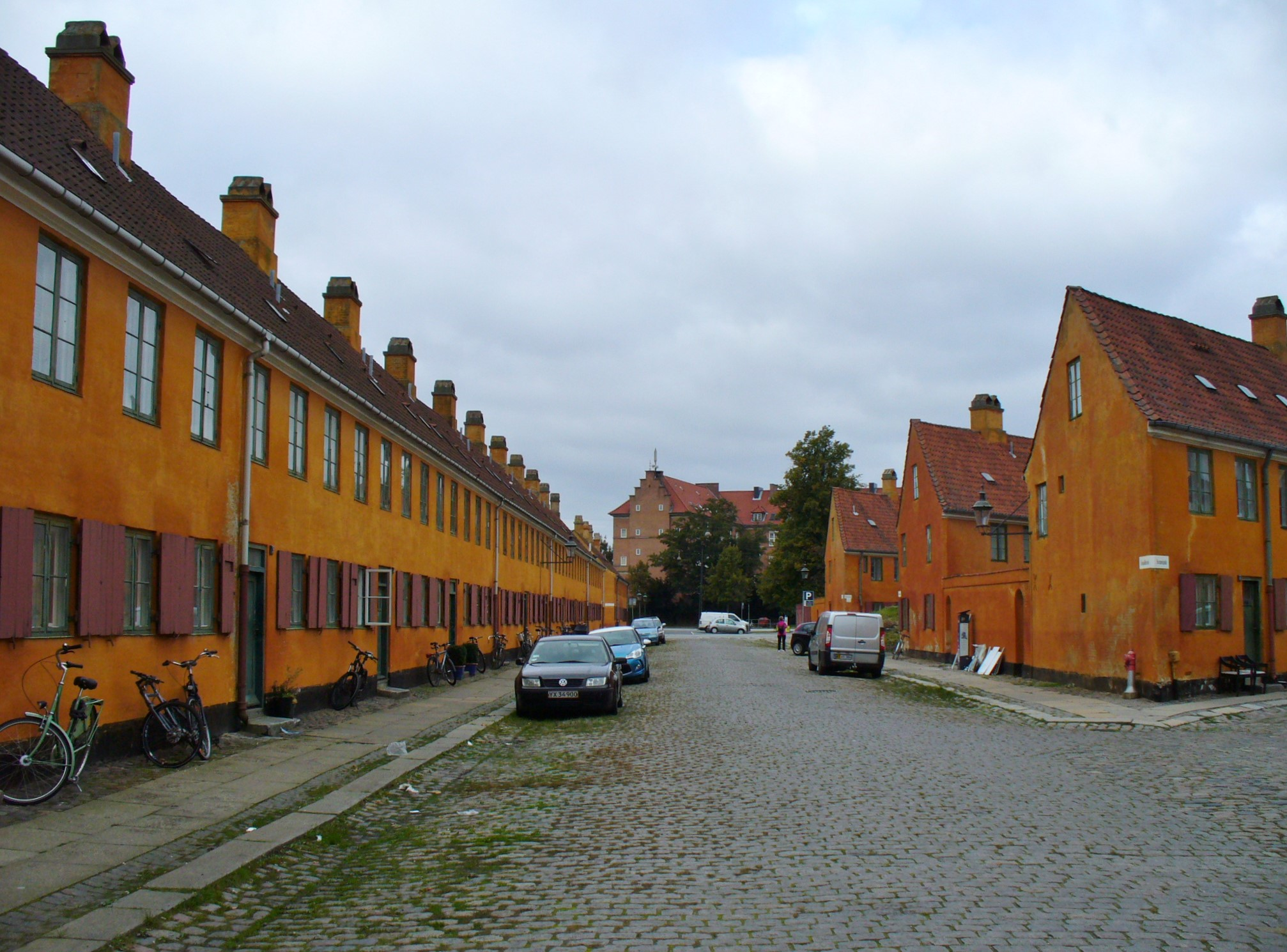 The street Krokodillegade in the area Nyboder in Copenhagen.